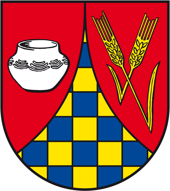 Coat of arms of Niederweiler